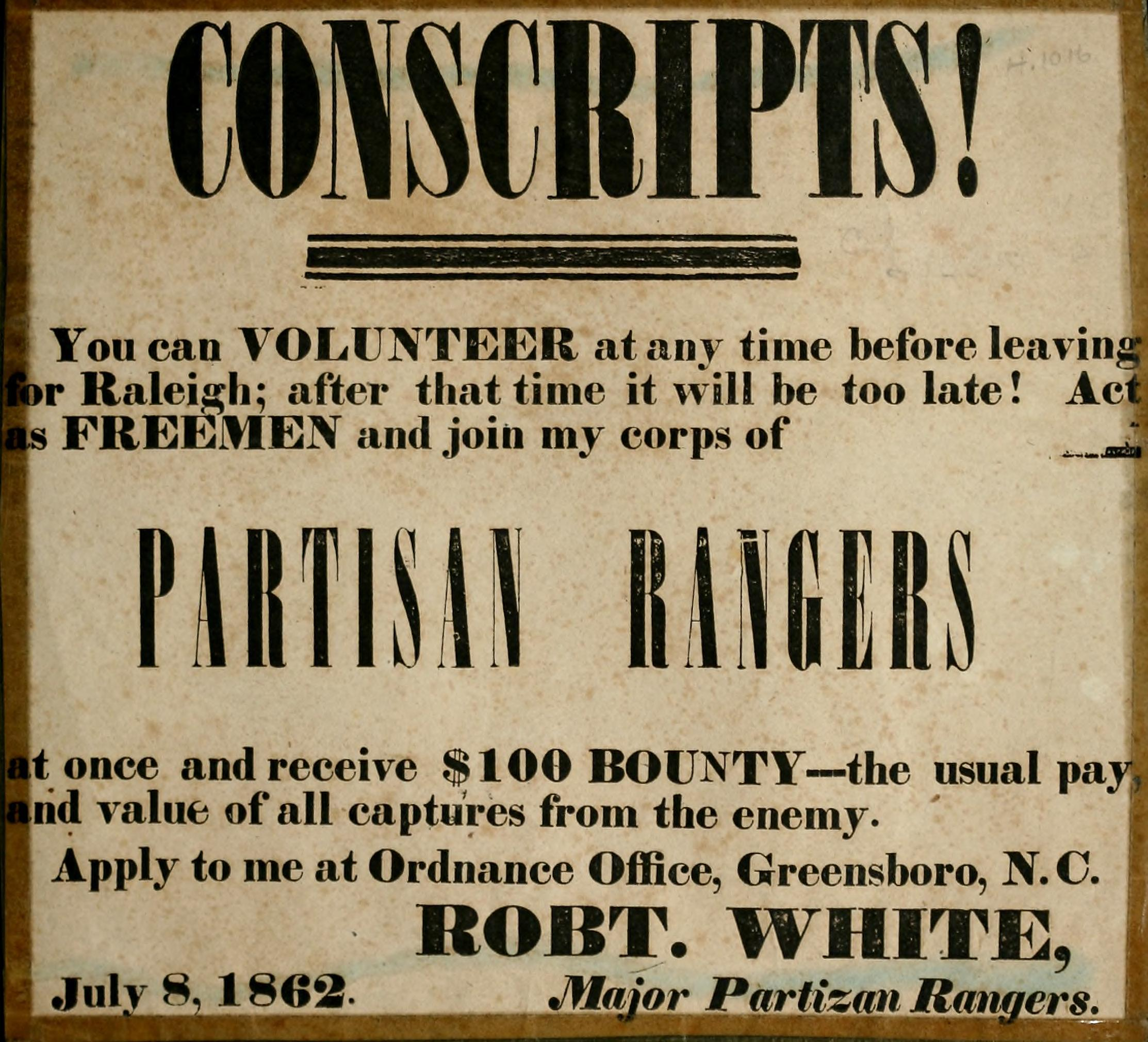 Invites enlistment in state cavalry corps of Partisan Rangers